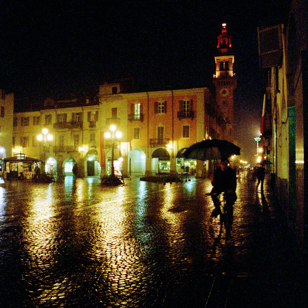 Casale Monferrato: Piazza Mazzini after dark. In the backgound Via Saffi leads past the Torre Civica, while the arcades on the left mark the beginning of Via Roma. Cyclist with umbrella in foreground.